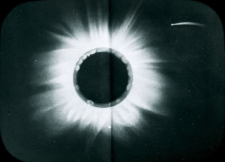 Solar eclipse of 1882 May 17. Sketch.